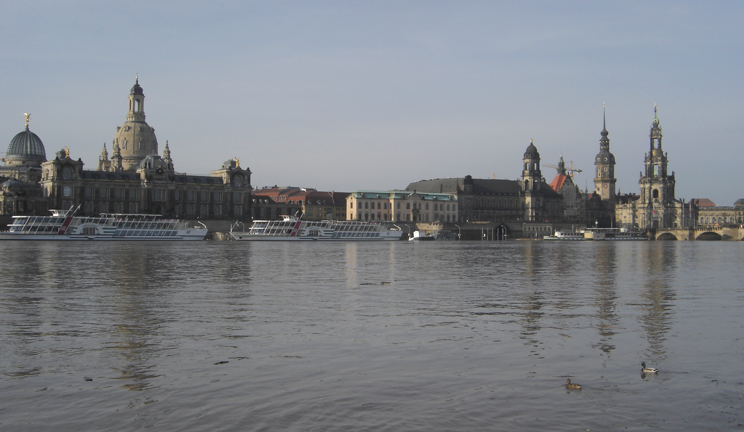 flood of the river Elbe in Dresden